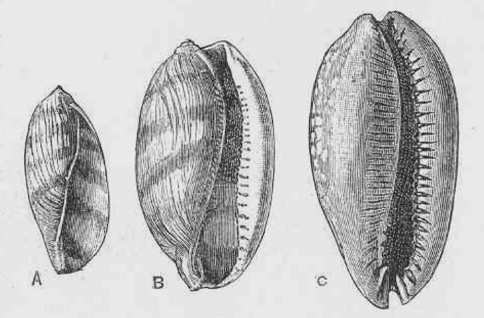 1895 illustration of three stages in the growth of Macrocypraea zebra [1]; A - juvenile; B - intermediate; C - Adult. From the book Molluscs, Cambridge Natural History, v.3, London: Macmillan and Co.